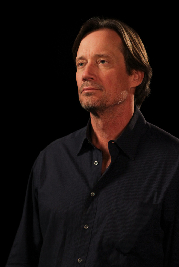 Kevin Sorbo on the set of "House of Fears" in 2013